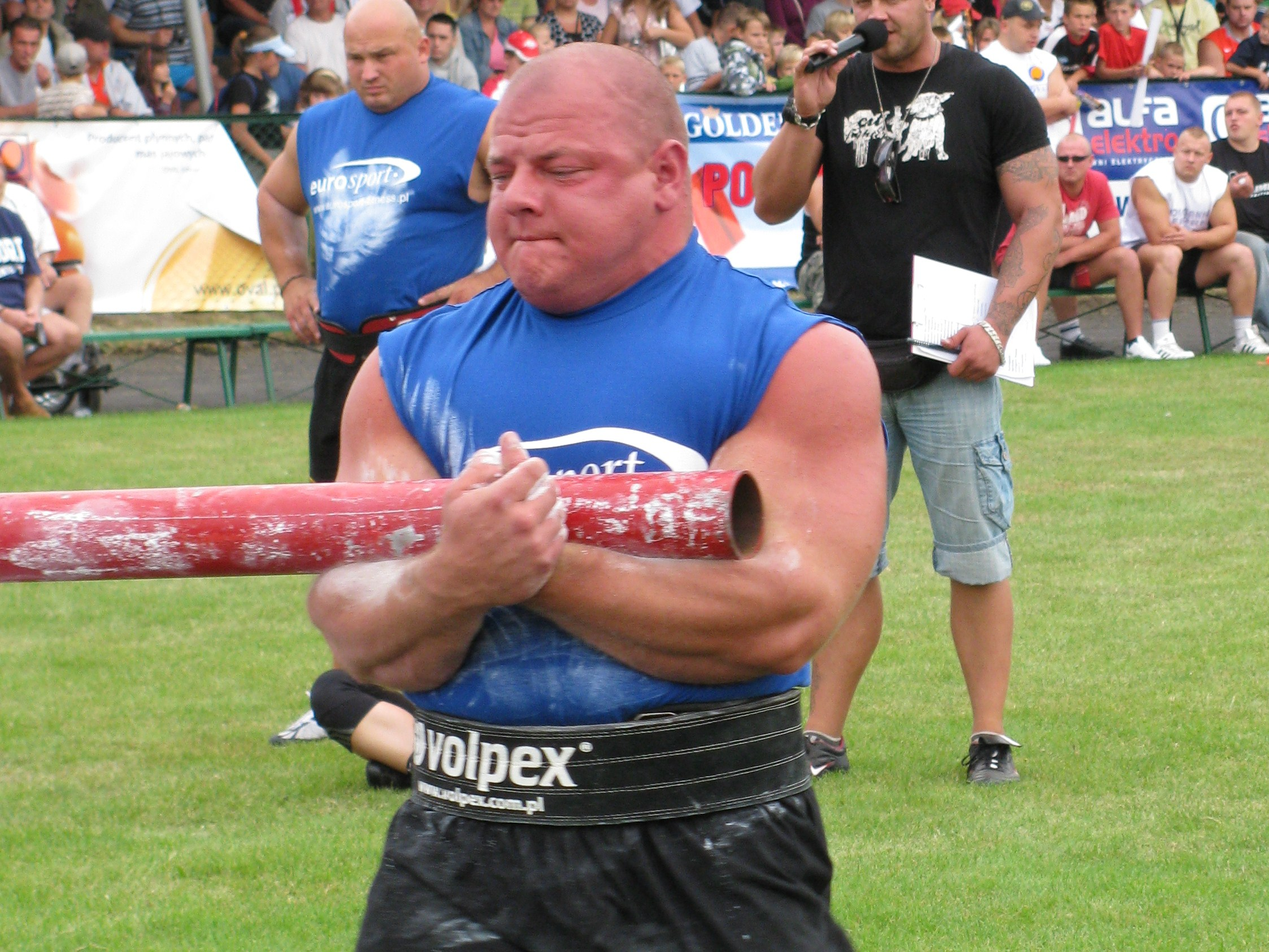 Tomasz Kowal - a strength athlete from Poland.